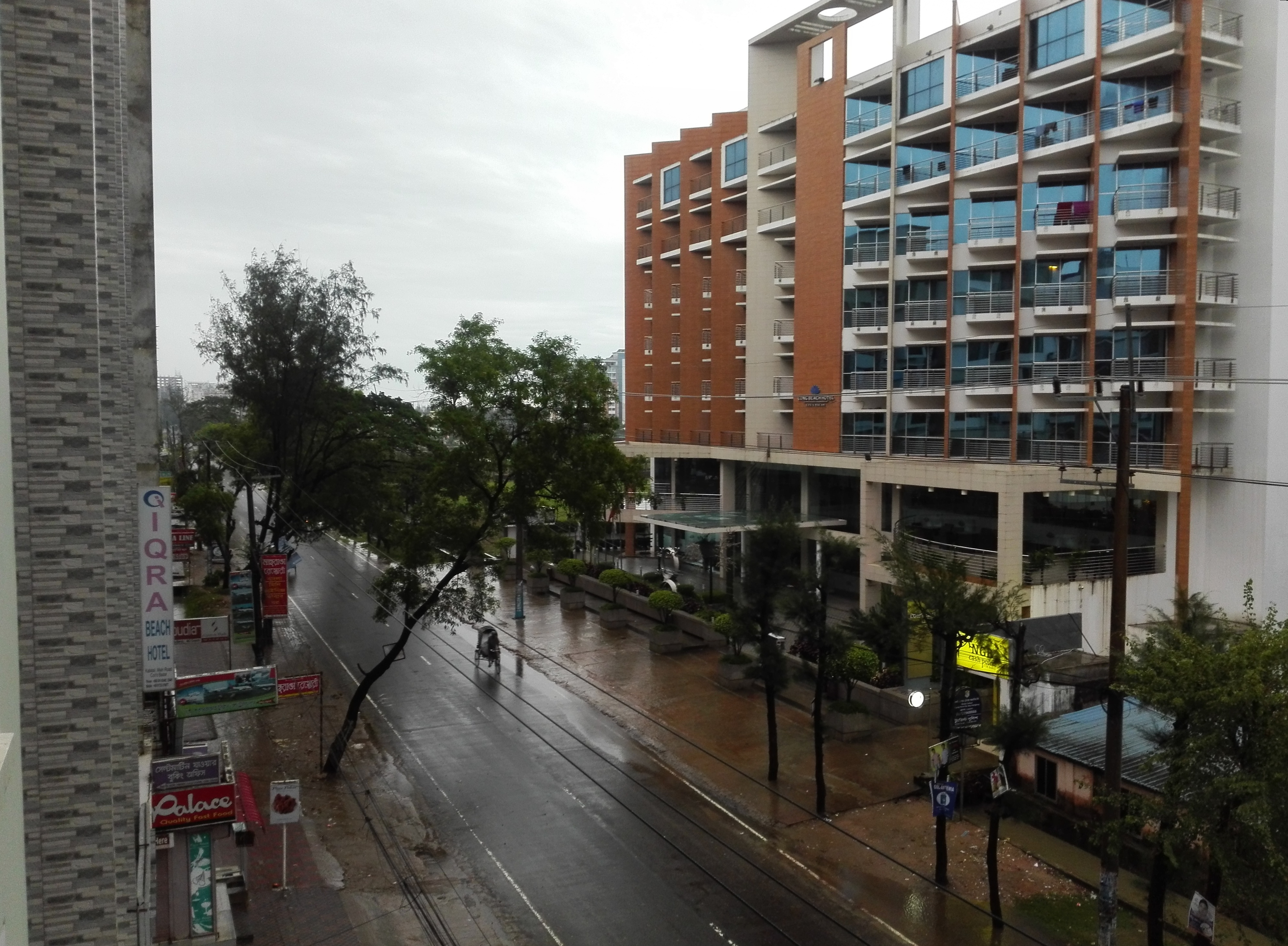 view of cox's bazar city